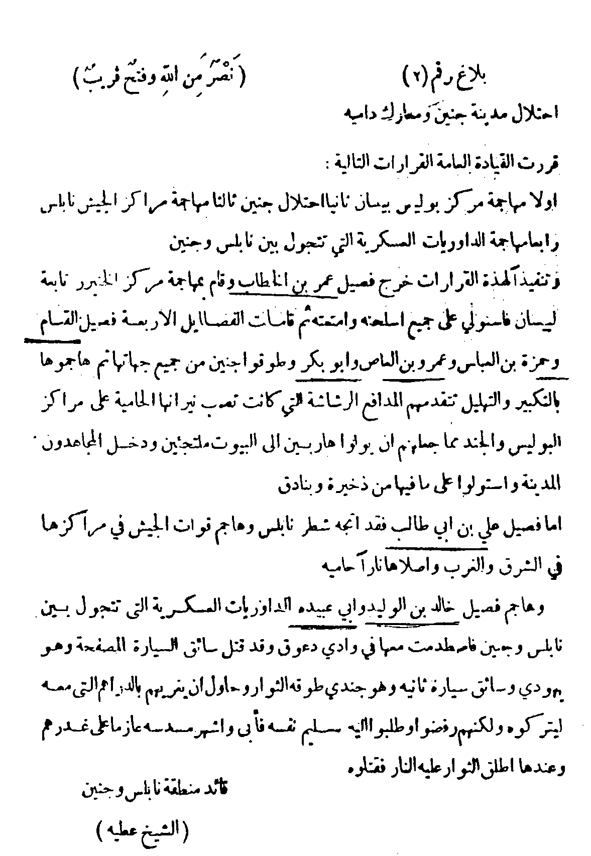 صورة بلاغ حربي من أيام الثورة الفلسطينية 1936-1939م.